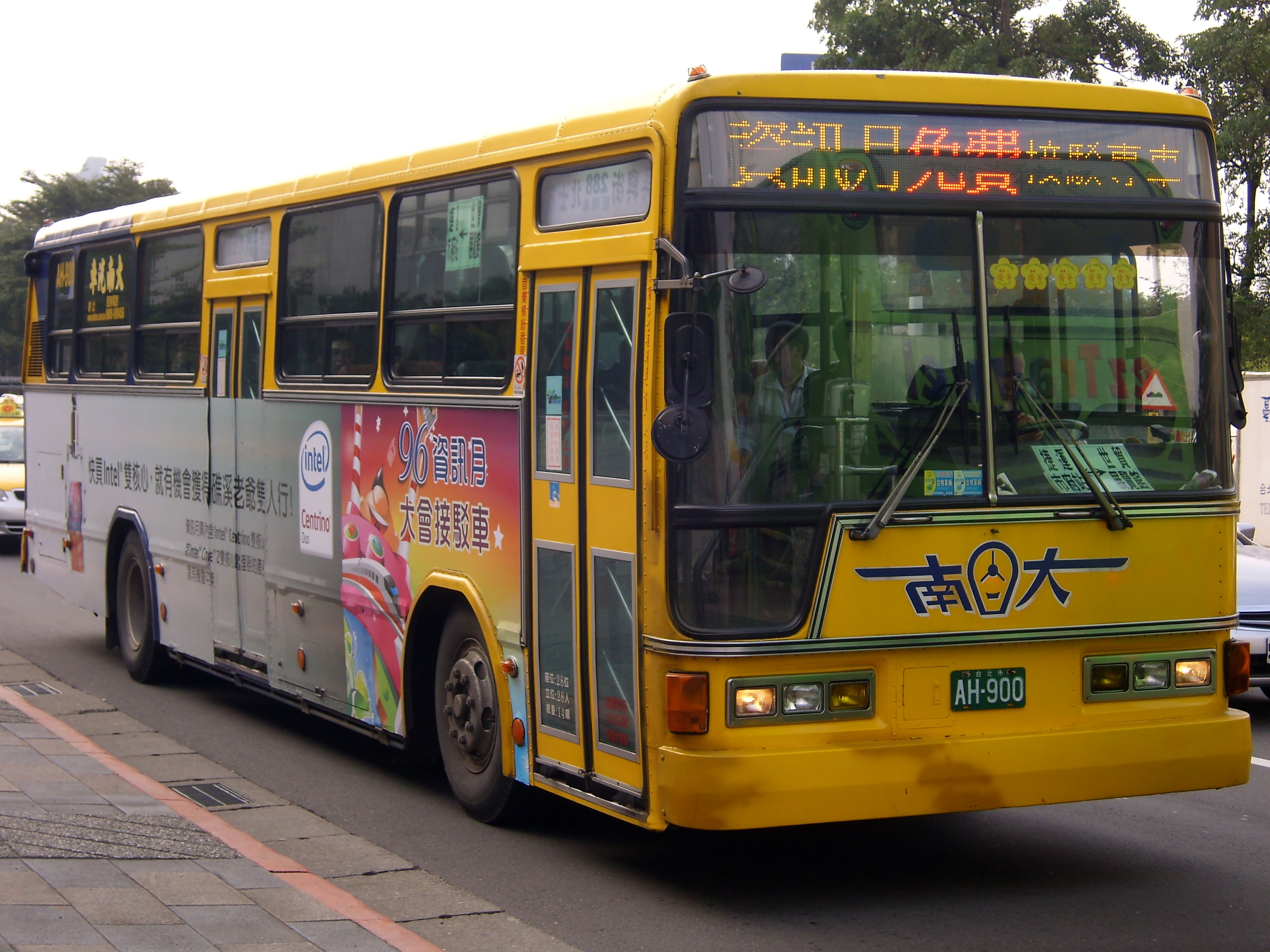 2007 Taipei IT Month: Shuttle Bus by Da-nan Bus Co., Ltd.